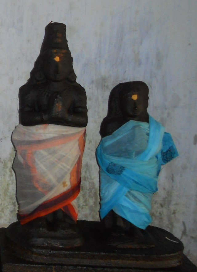 Manickavasagar, Sambandar, Appar, Sundarar and his consort Paravai Nachiyar; Padikasu Nathar Temple